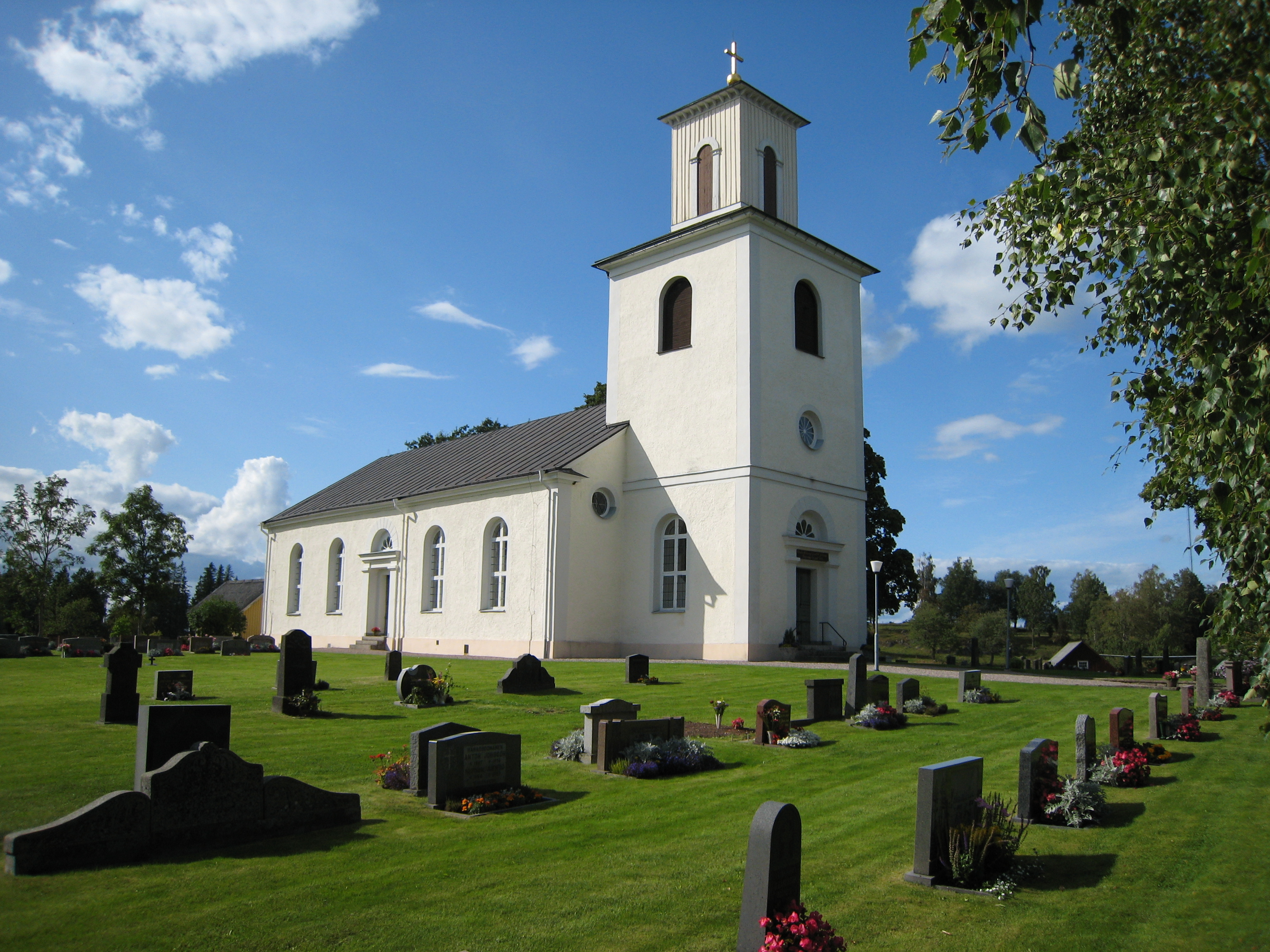 Södra Solberga Church.The Church is built in 1832-1835 in the empire style.It is built in stone and consists of a rectangular nave, korvägg and underlying sacristy in the West and a tower in the East. Bishop Esaias Tegnér consecrated the Church on 27 september 1837.